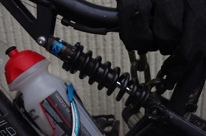 Rear suspension on an entry level montain bike